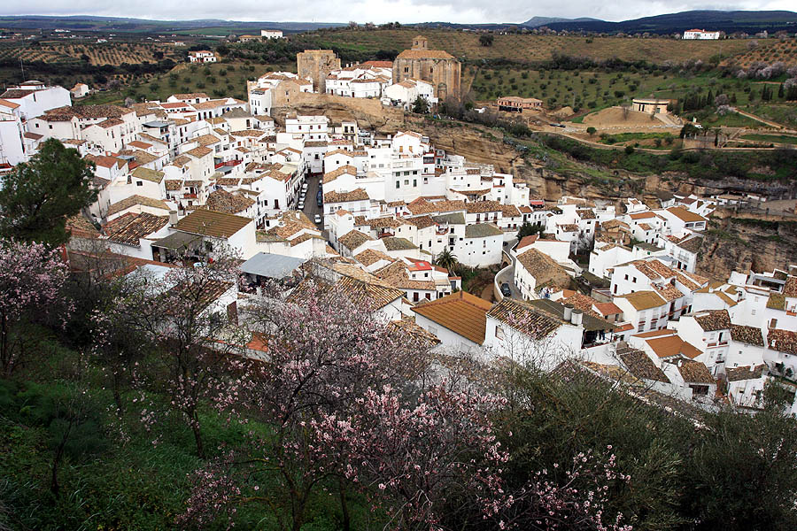 Setenil de las Bodegas in Cadiz Province, Spain is one of the well-known "white villages".